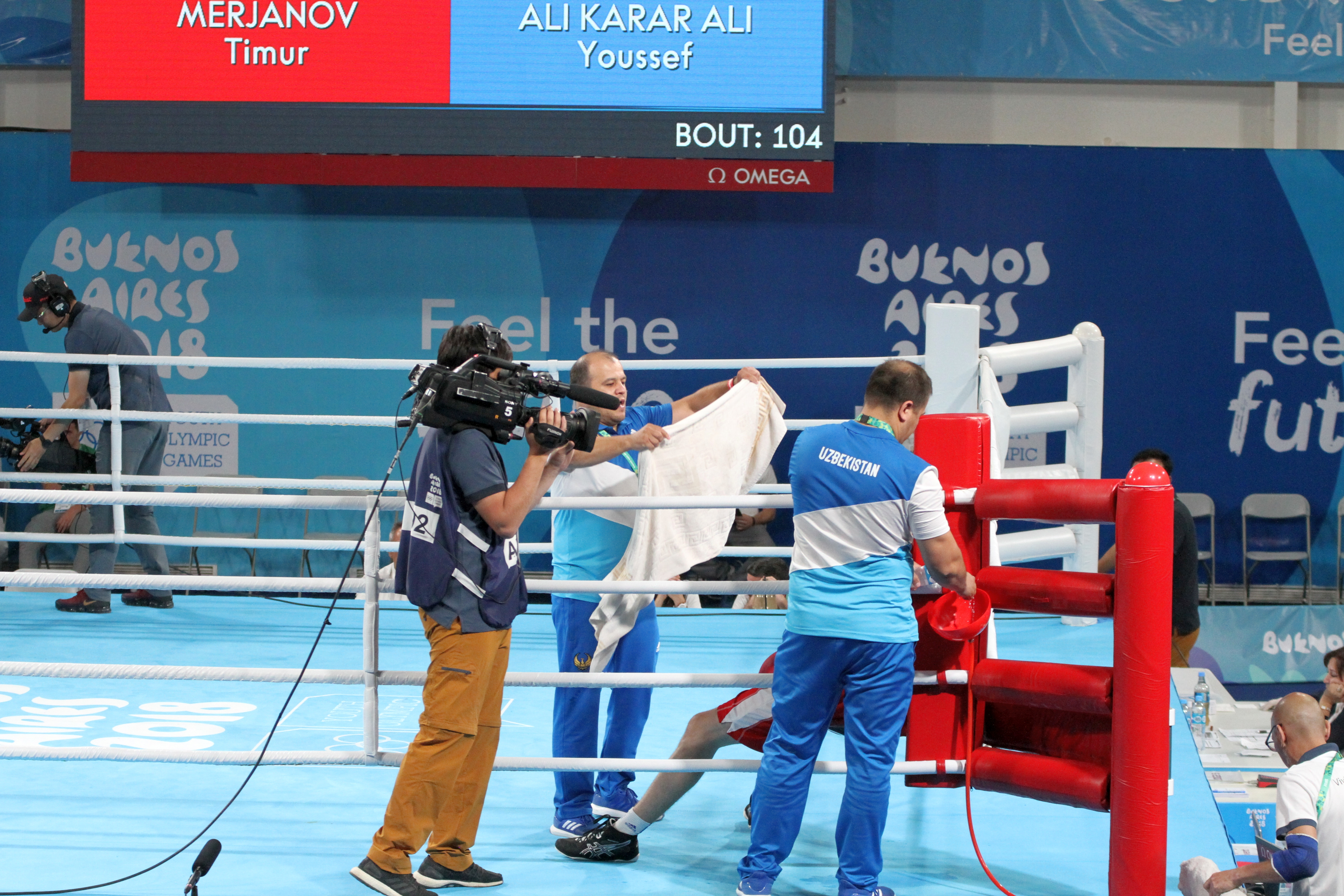 Boxing at the 2018 Summer Youth Olympics on 18 October 2018 – Boys' light heavyweight Bronze Medal Bout - Timur Merjanov (Uzbekistan, red) beats Youssef Ali Karar Ali (Egypt, blue) 5-0; Referee is Antonín Gaspar (Czech Republic).